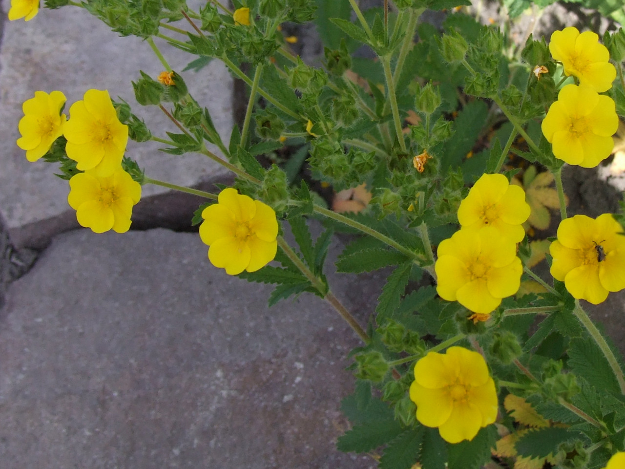 Potentilla recta (location: Poland, West Tatra Mountains, Dolina Lejowa)